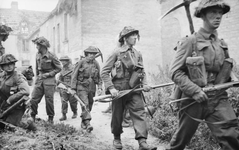 Infantry of 6th Royal Scots Fusiliers, 15th (Scottish) Division in the village of St Mauvieu-Norrey in Normandy, during Operation 'Epsom', 26 June 1944. Infantry of 6th Royal Scots Fusiliers, 15th (Scottish) Division in the village of St Mauvieu-Norrey during Operation 'Epsom', 26 June 1944.